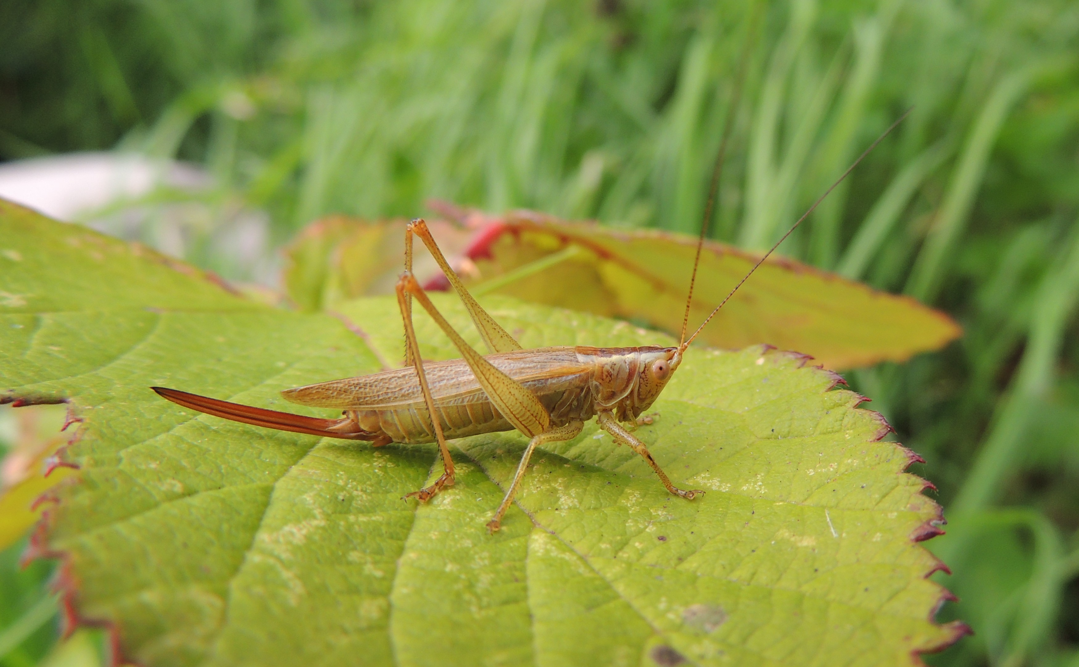 Female long winged conehead (Conocephalus discolor), Cople, Bedfordshire